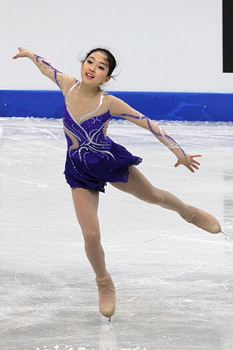 2012 world junior LFS Li Zijun